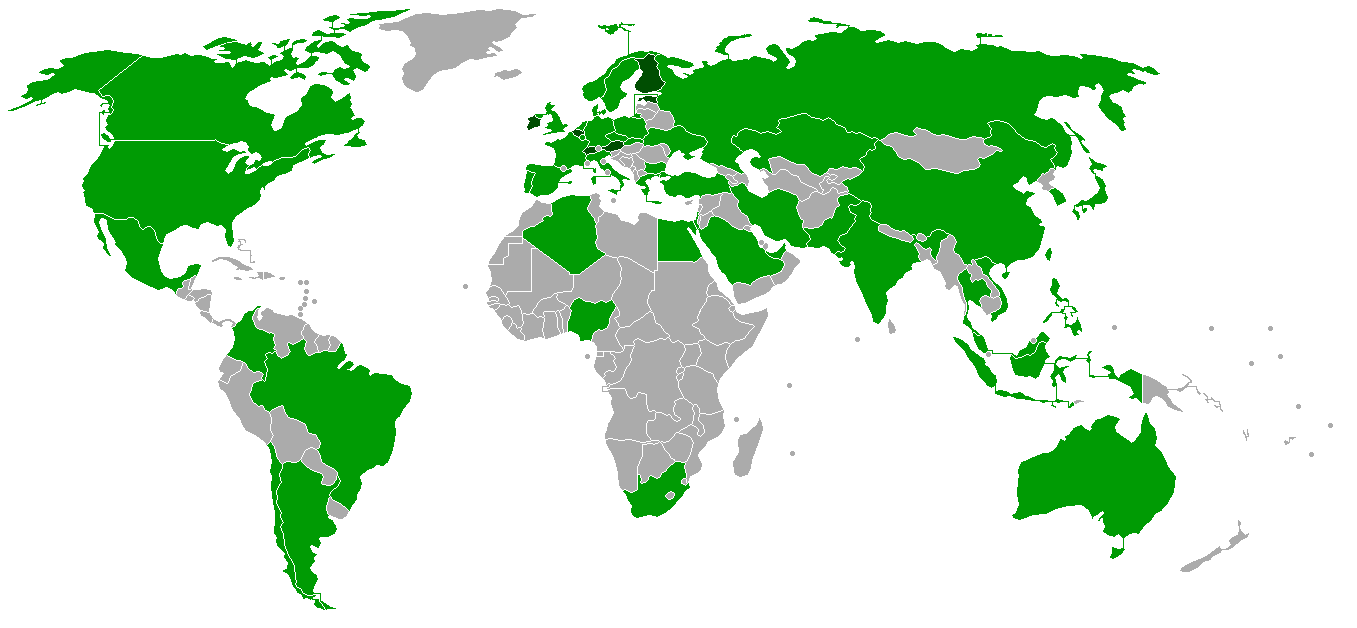 Map of satellite-operating countries, with some countries of ESA shown in darker colour. Edited with Gimp 2.2.17 on Debian GNU/Linux 4.0r1 etch (64bit). This is a derivative work of BlankMap-World-v5.png (original author Astrokey44, contributing authors Dbachmann, Hoshie, Wiz9999, Tene) and was based on the 21:31, 18 April 2007 version of that work.